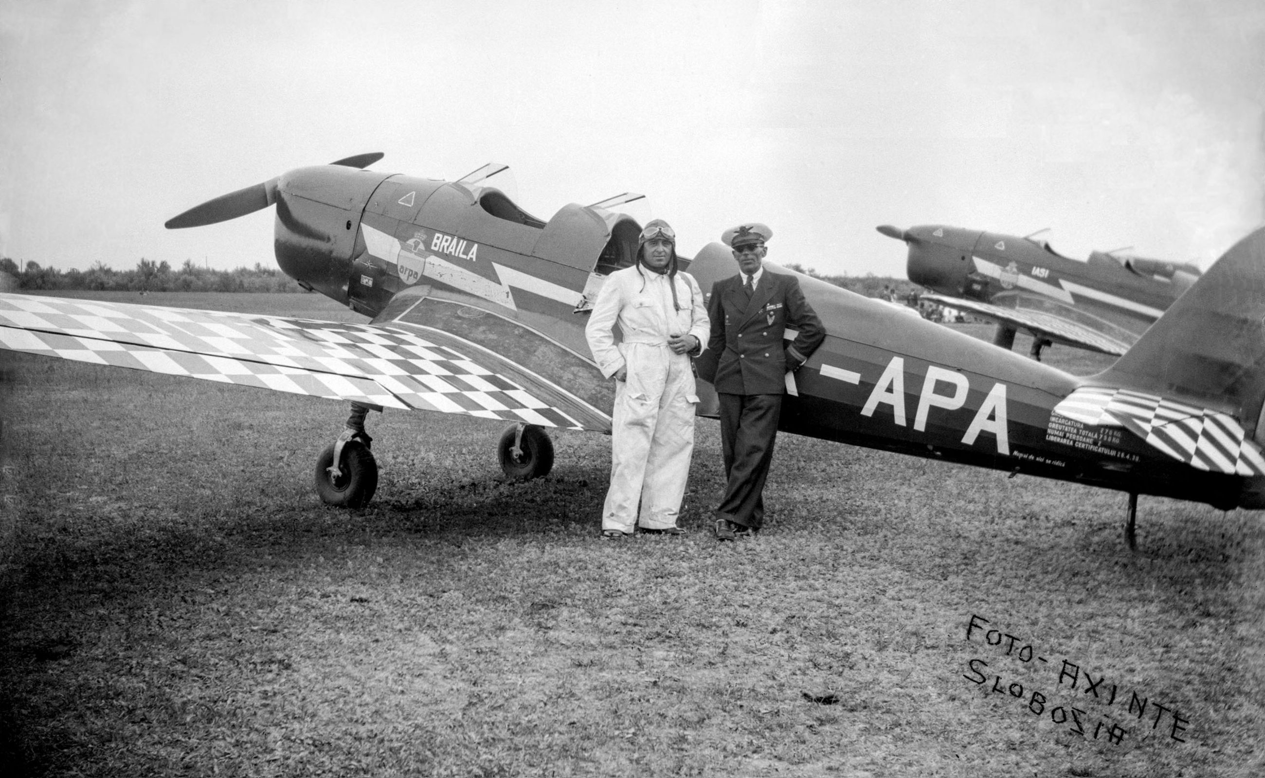 Max Manolescu (left) with an civilian pilot (right) near the plane YR-APA, 1938.